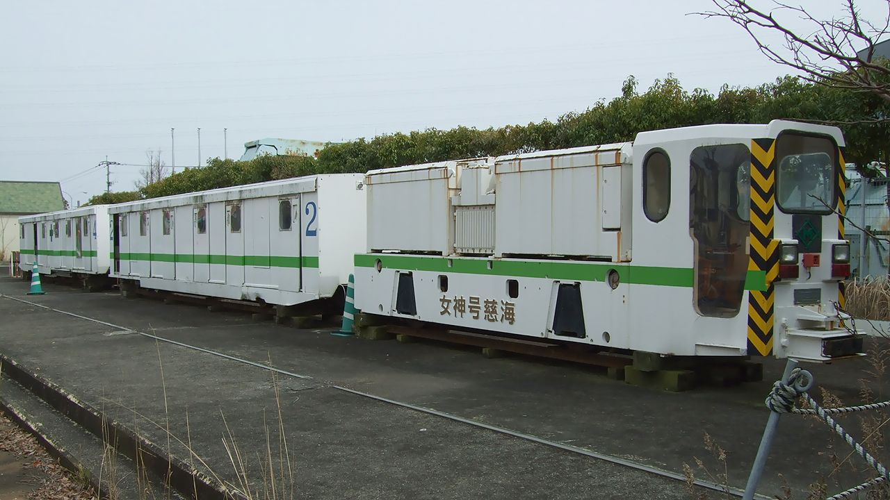 Mitsui Miike coalmine man-car "Megami-go-Jikai" Location: Omuta coal industry and science museum